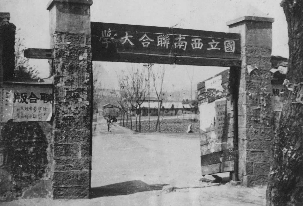 The Gate of National Southwestern Associated University, China, in 1938. 中文（中国大陆）: 国立西南联合大学校门。